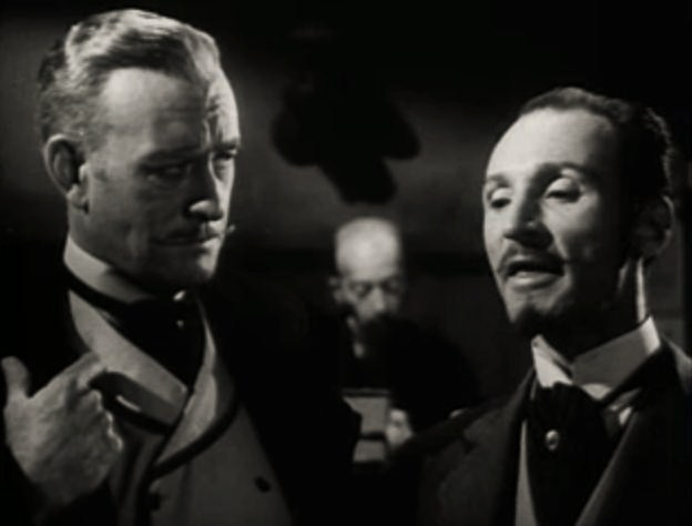 Conrad Nagel (left) & Peter Brocco in The Vicious Circle (1948) aka Woman in Brown - cropped screenshot